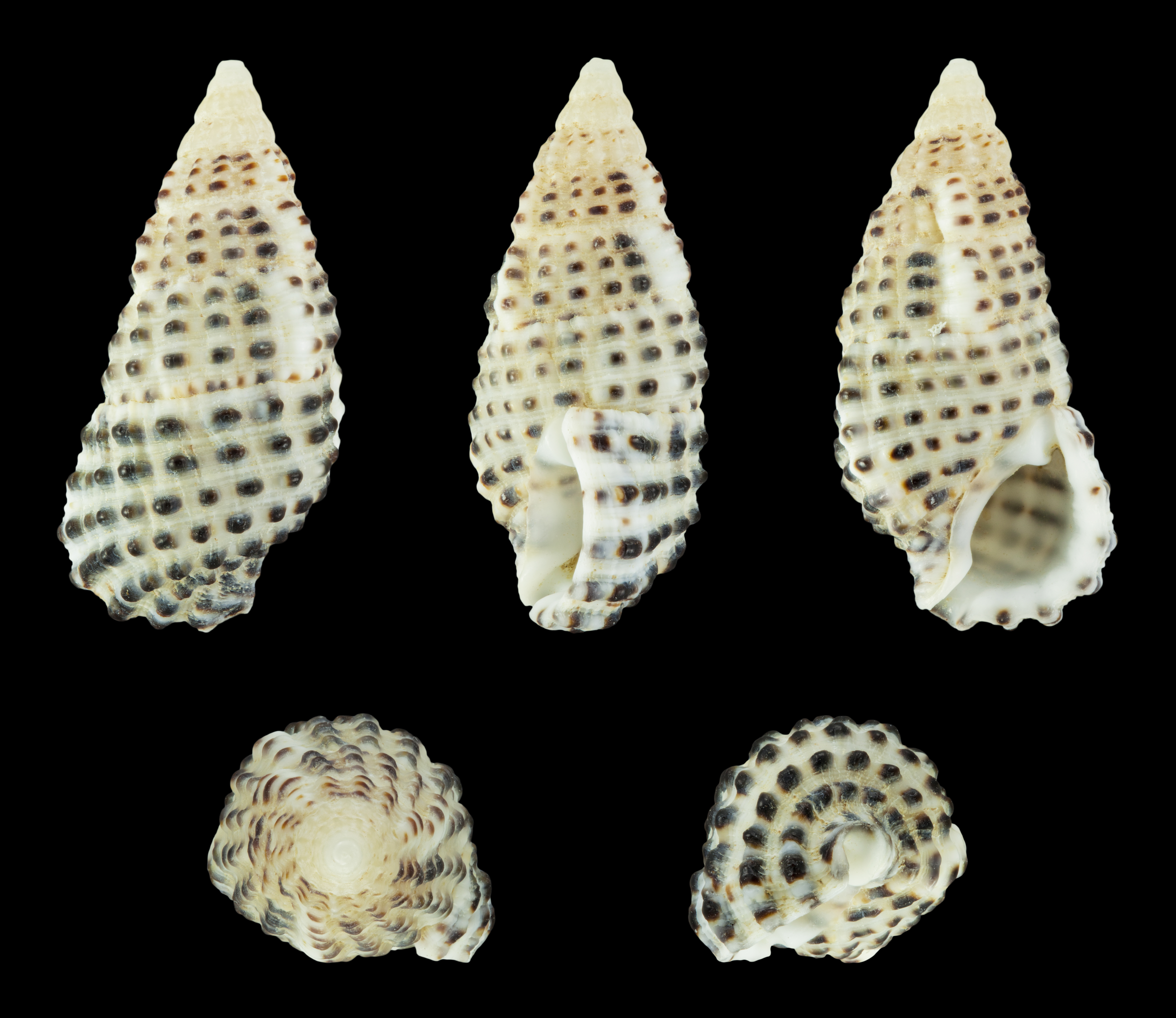 Clypeomorus bifasciata bifasciata (Sowerby, 1855), Morus Cerith, bright form; Length 2.3 cm; Originating from the Philippines; Shell of own collection, therefore not geocoded.